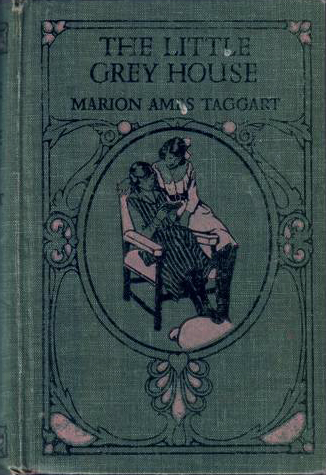 Cover of The Little Grey House but Marion Ames Taggart. Cover art by Ethel Franklin Betts. Published 1904 by McClure, Phillips & Co. (New York).